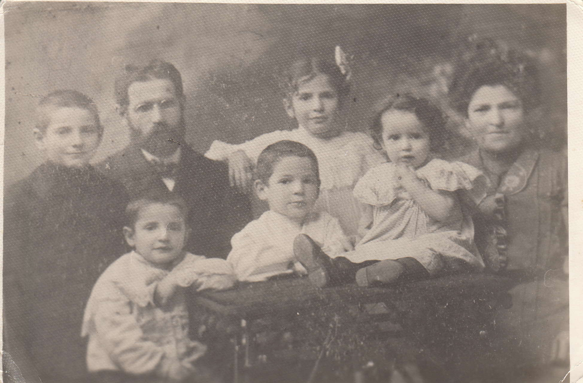 Israel Kaplan with his wife Bilhah (Bella) and first five children